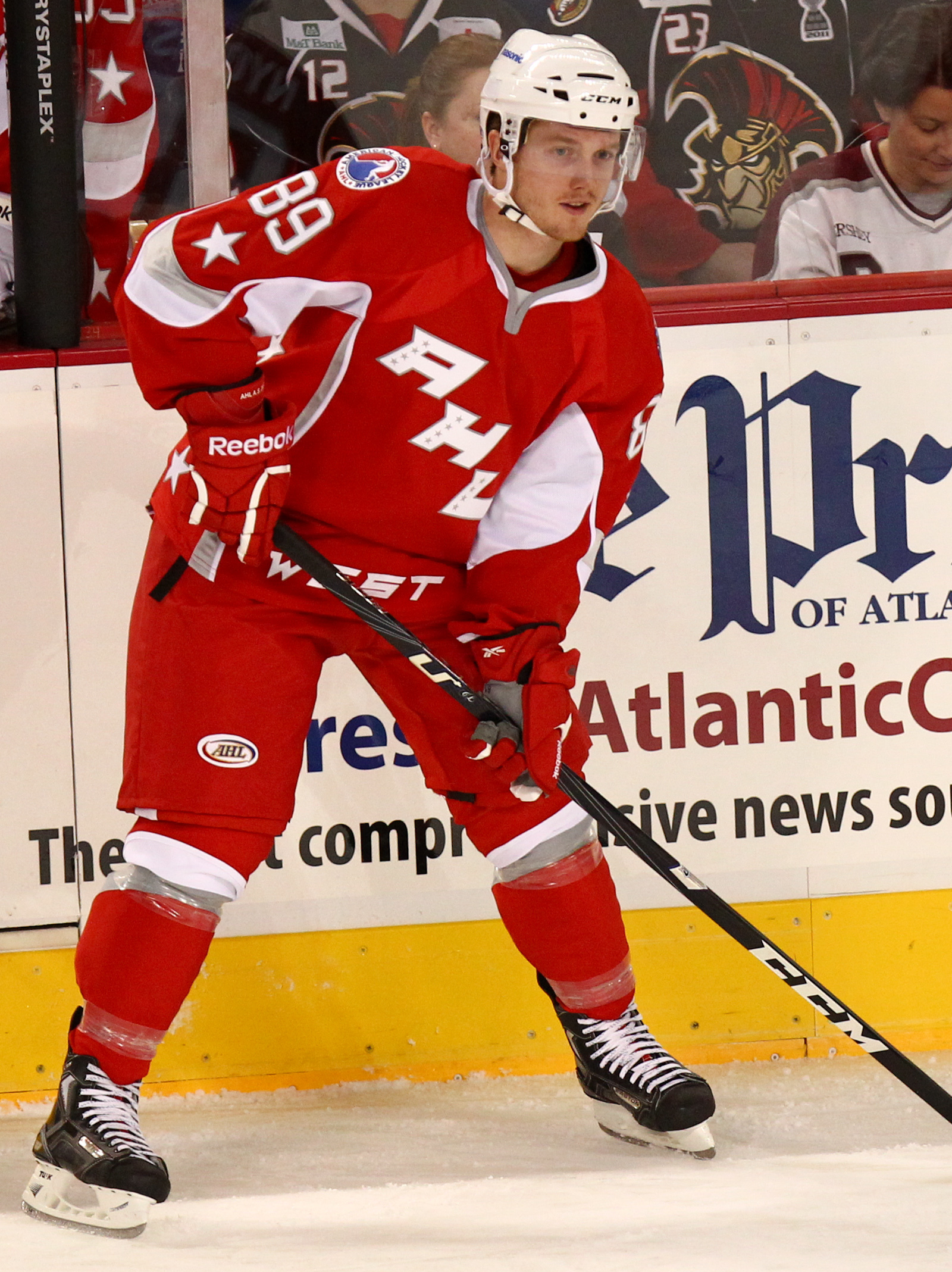 Gustav Nyquist, Swedish ice hockey player